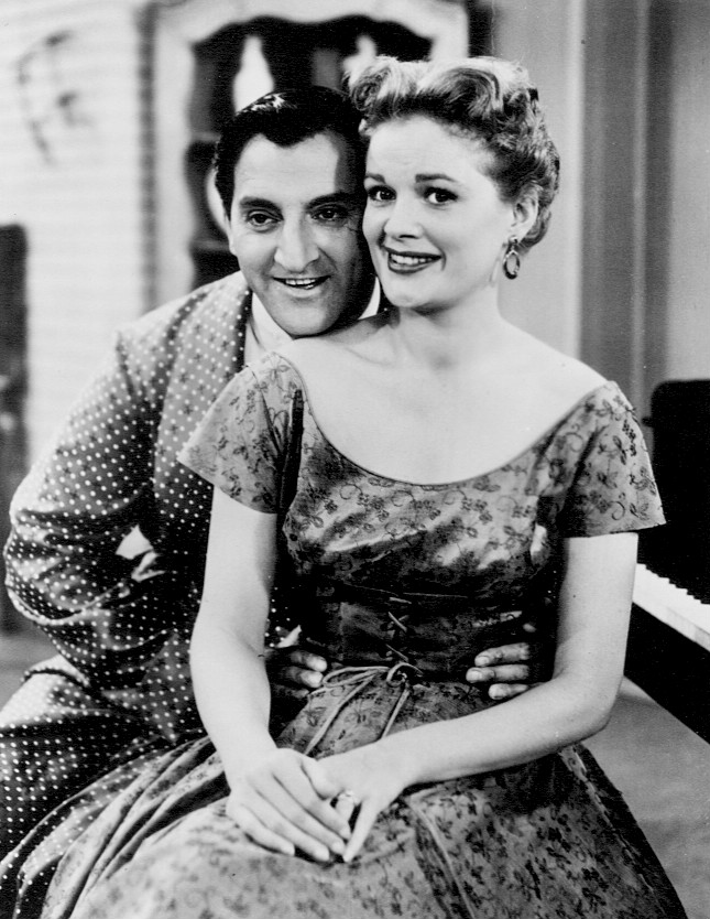 Photo of Danny Thomas and Jean Hagen from the television comedy series The Danny Thomas Show AKA Make Room for Daddy. Hagen played Margaret Williams, the first wife of Thomas' character Danny Williams, and the mother of Rusty and Terry. When Hagen wanted to leave the program, her character was written out as dying. The item has no copyright markings on it as can be seen in the links above.